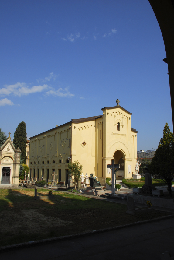 Soffiano Catholic Cemetery, Florence, Italy. South side. Central Sepulchre.